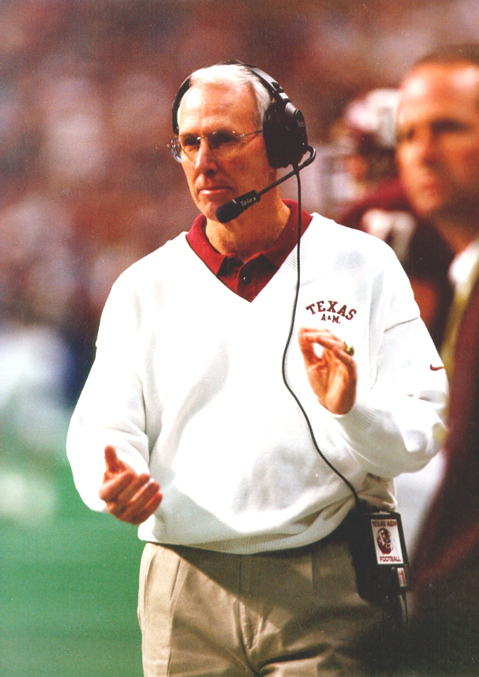 Former Texas A&M Aggies football coach R.C. Slocum. See Wikipedia page.